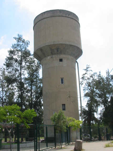 Water tower of the moshav